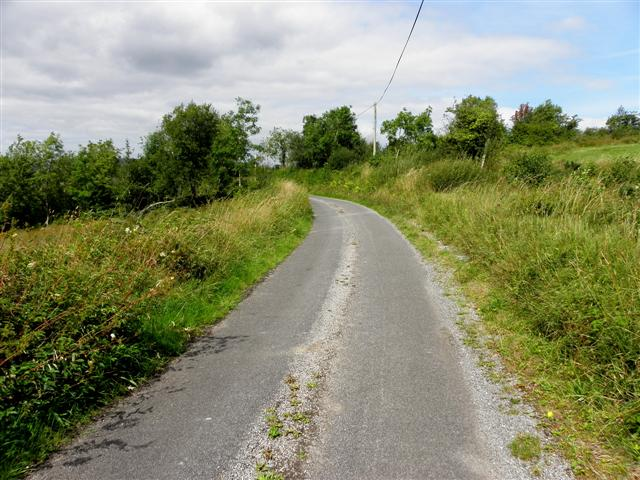 Road at Bonebrook